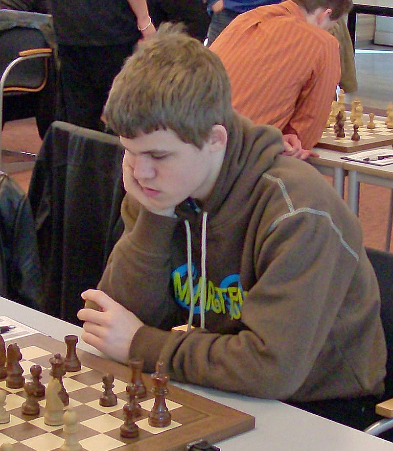 Magnus Carlsen, chess grandmaster